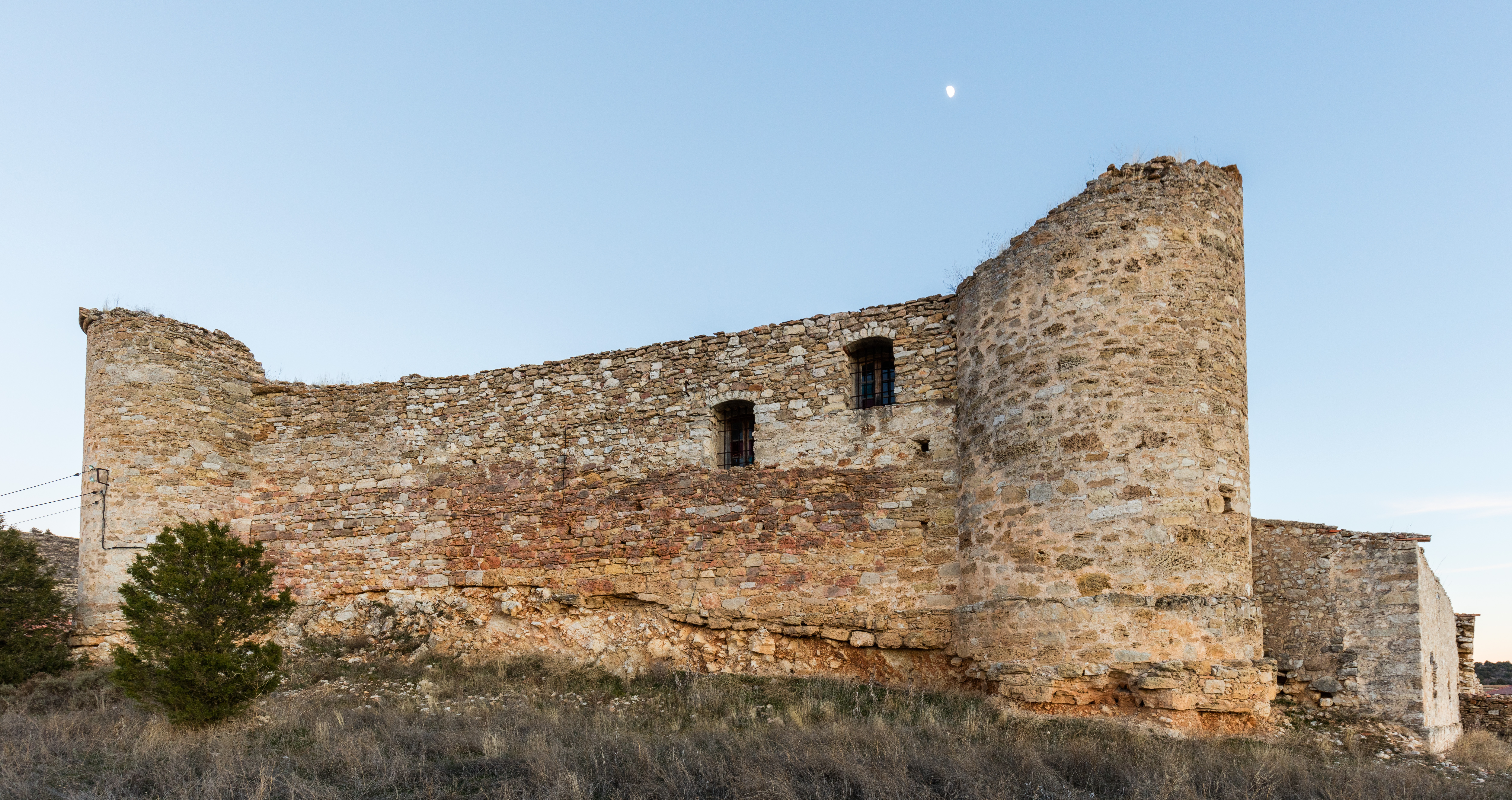 Castle of Malasombra, Establés, Guadalajara, Spain